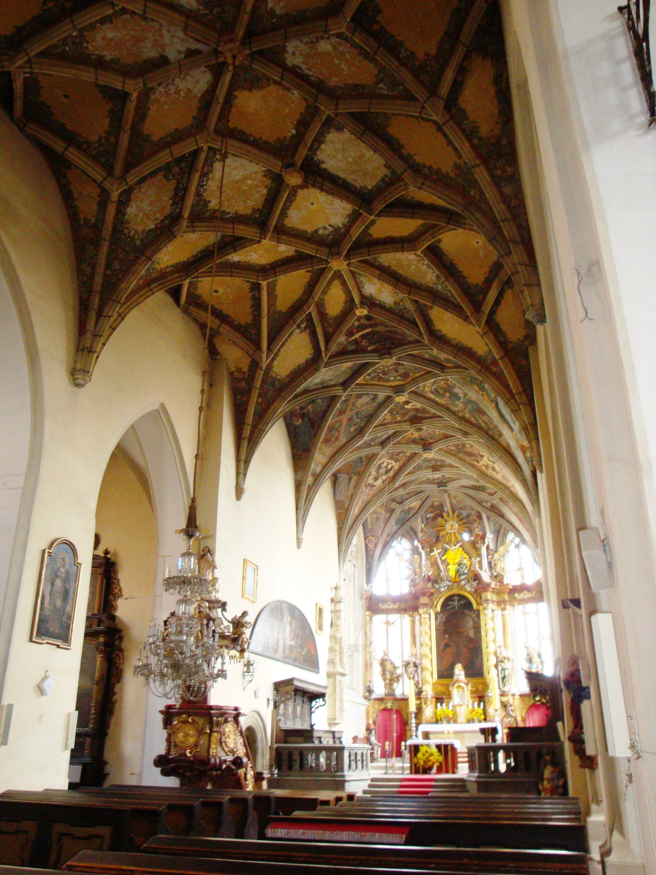 Mělník, St. Peter and Paul church, interior